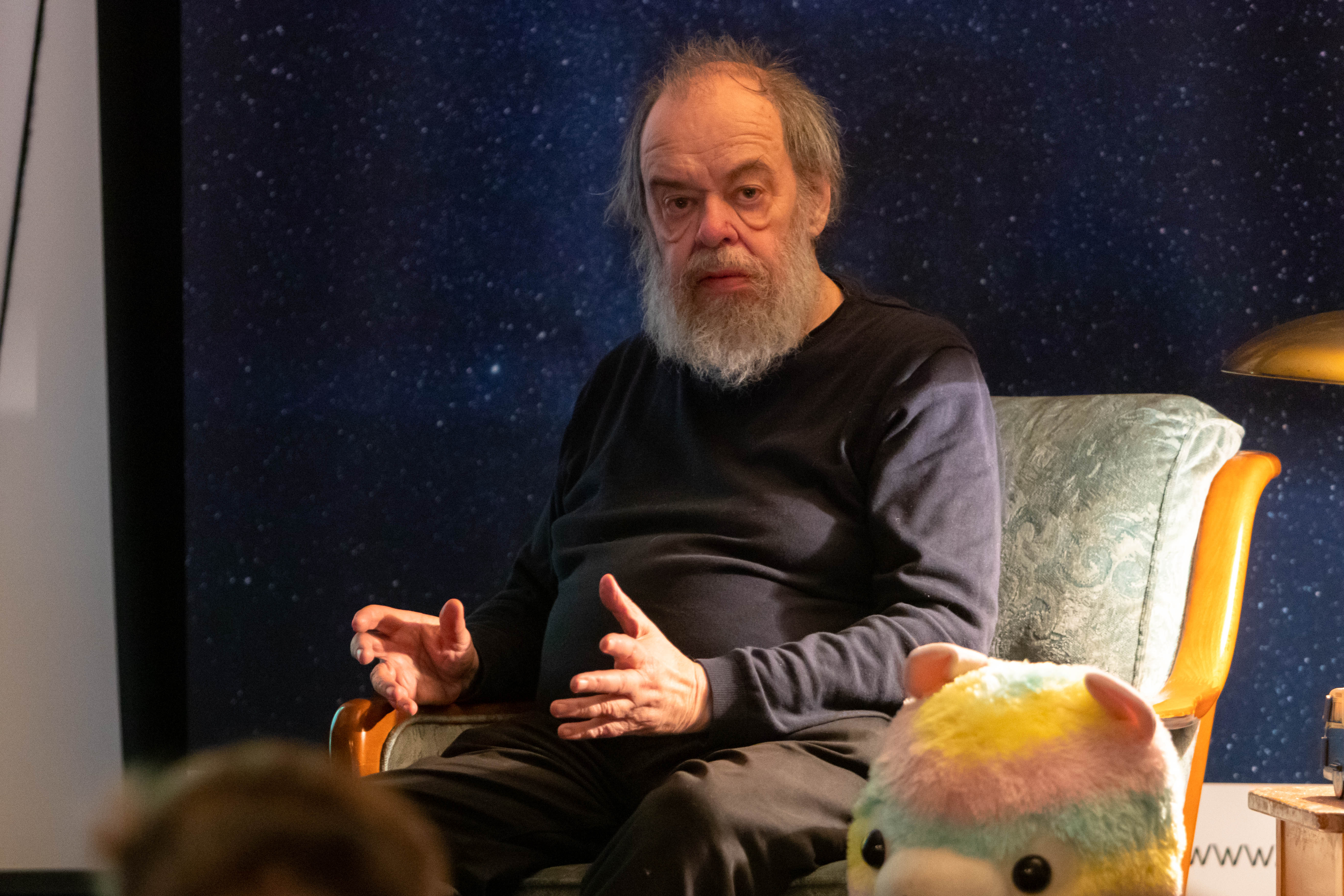 Wolfgang Coy bei einem Vortrag im Rahmen des Turing-Bus-Projekts der Gesellschaft für Informatik und der Open Knowledge Foundation Deutschland im Verstehbahnhof Fürstenberg am 16.05.2019 CC-BY 4.0 Turing-Bus, Foto: Leonard Wolf